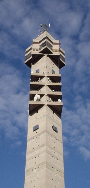 Closeup of Kaknästornet